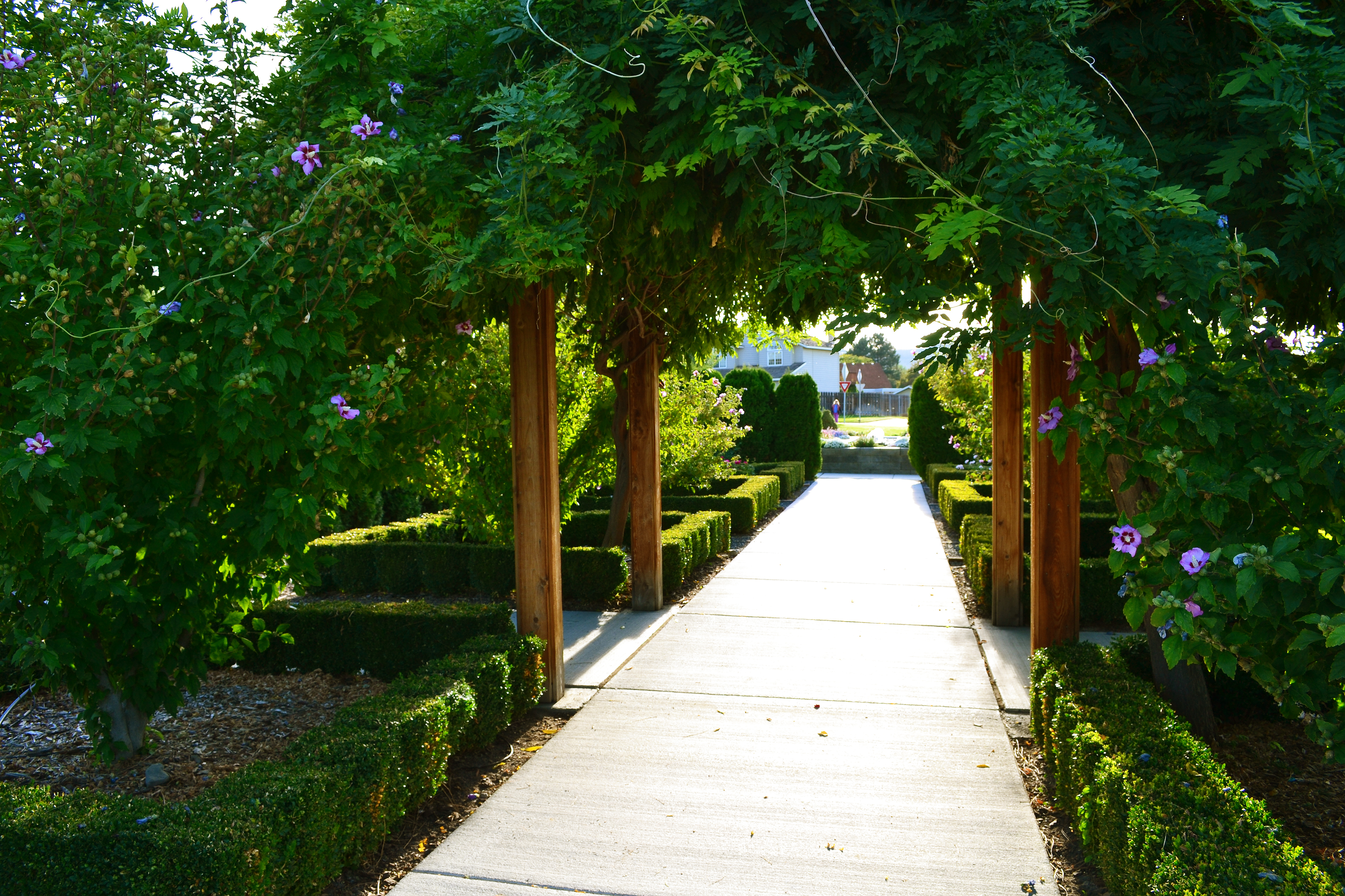 Photocredit: Lunita Medrano